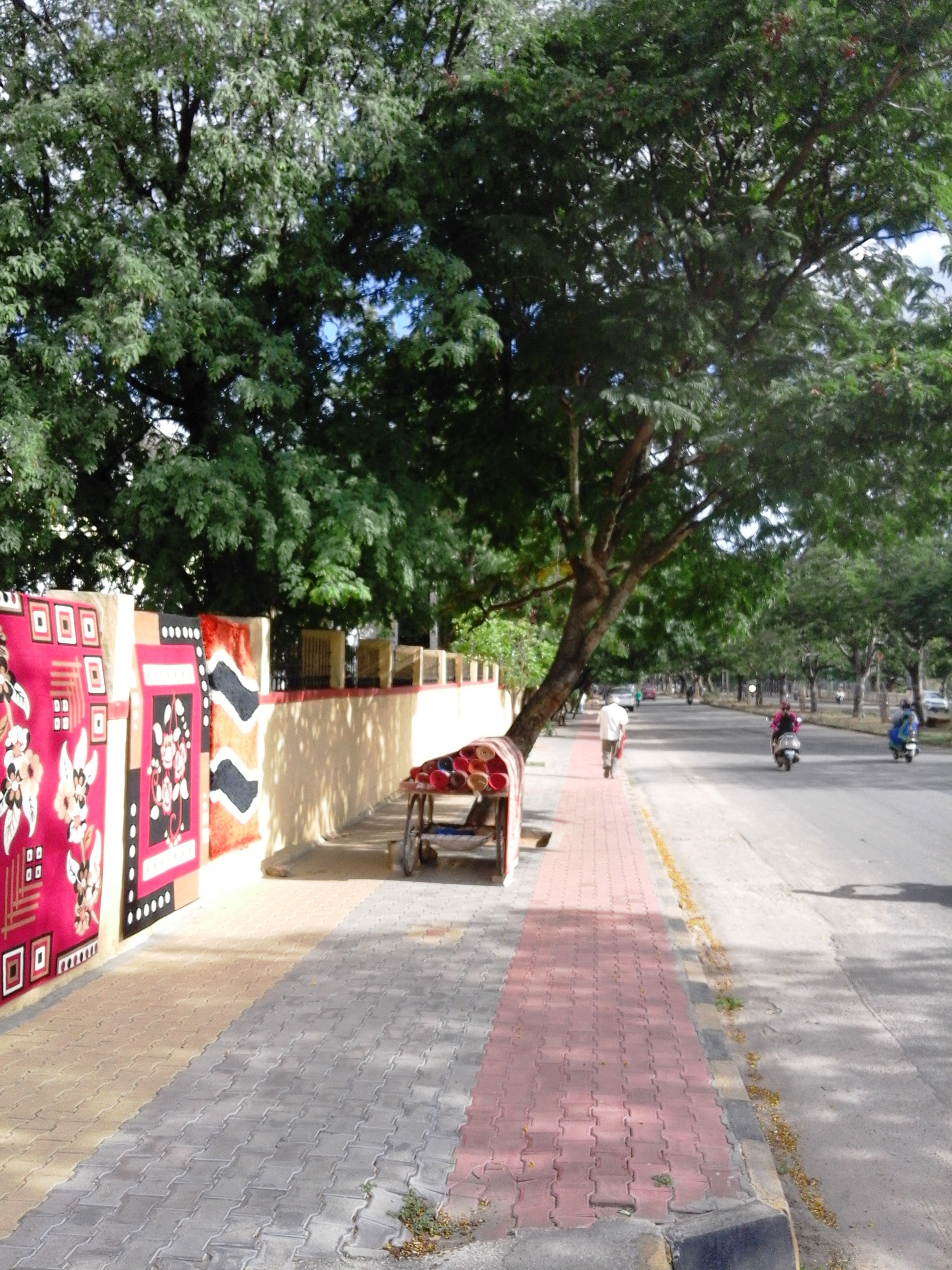 Mysore city, Karnataka state, India